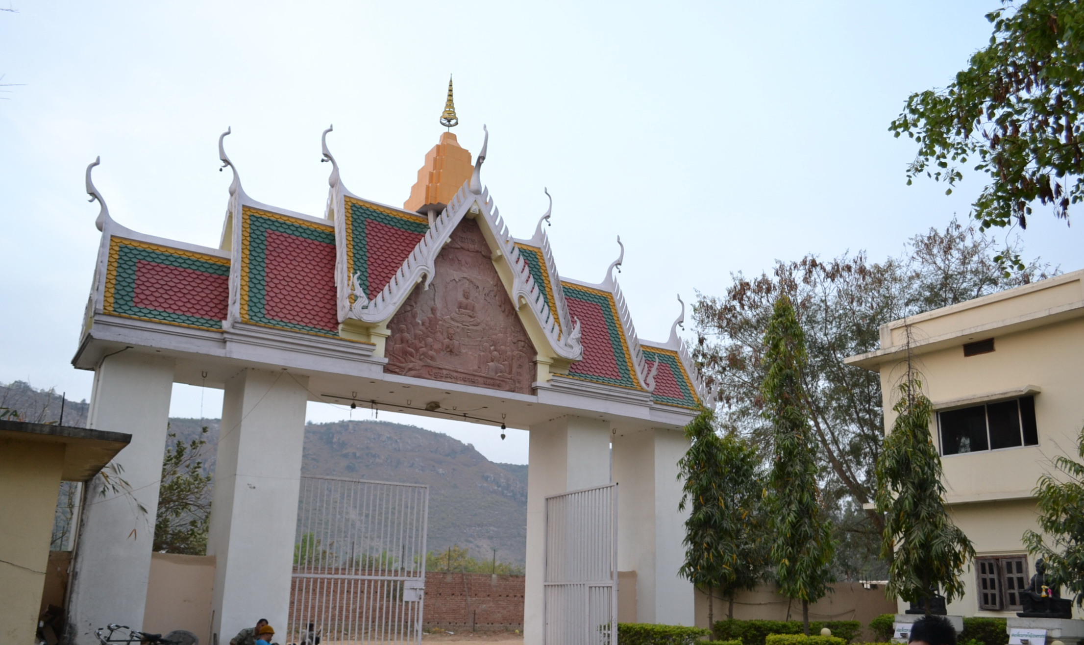 Wat Thaisirirajgir Location:Rajgir, India.